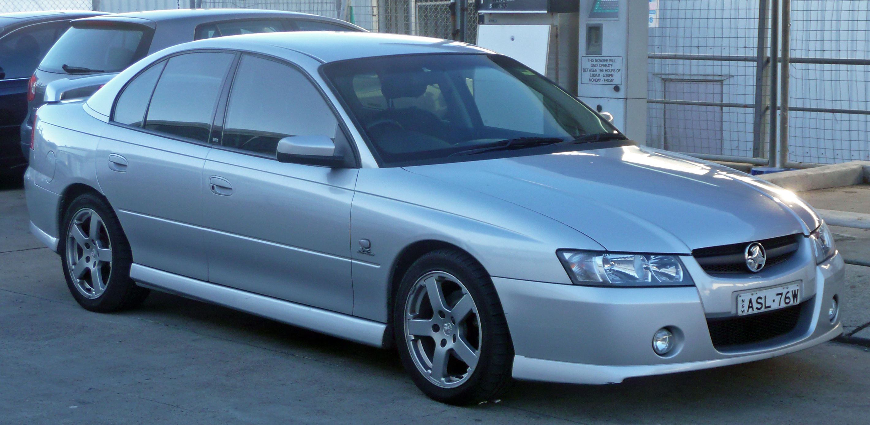 2004–2006 Holden Commodore (VZ) SV6 sedan. Photographed in Kirrawee, New South Wales, Australia.